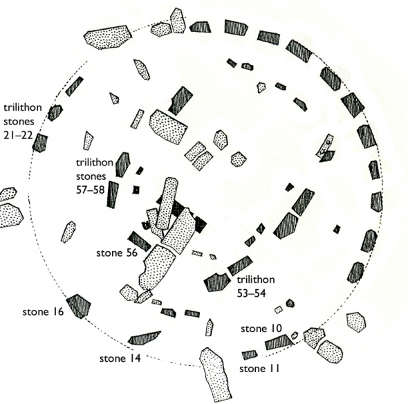 Part of a plan of Stonehenge drawn by John Wood in 1740